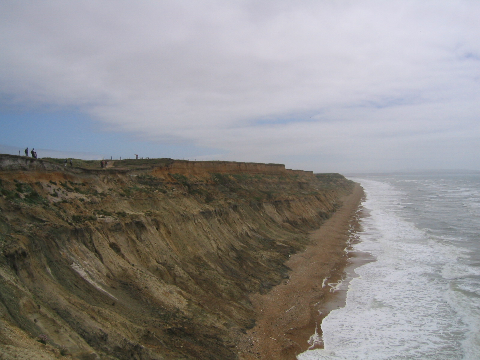 Cliffs at Barton-on-Sea, the coastal part of New Milton, Hampshire, UK. Photo taken by me 2005-05-28.